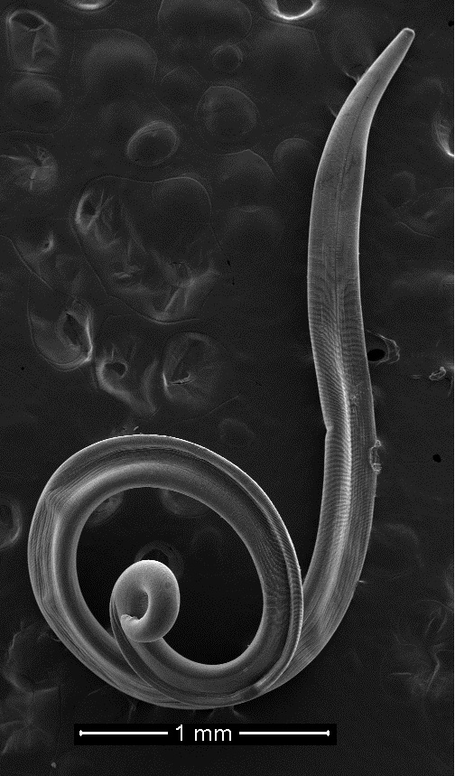 Figure 3 of paper Male Thelazia callipaeda, scanning electron micrograph.